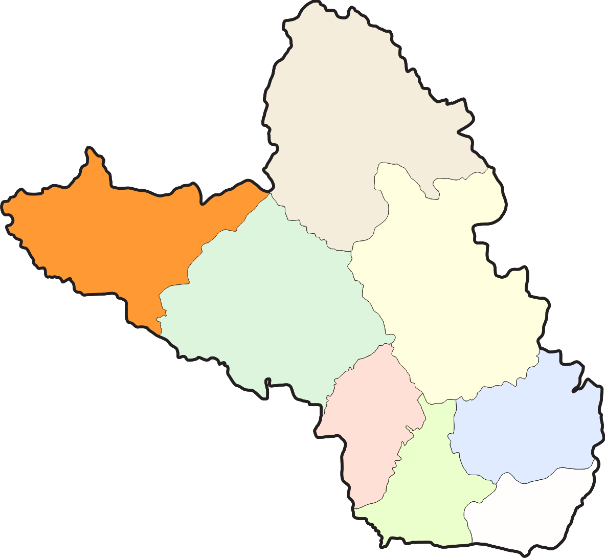 Planned Maros Seat